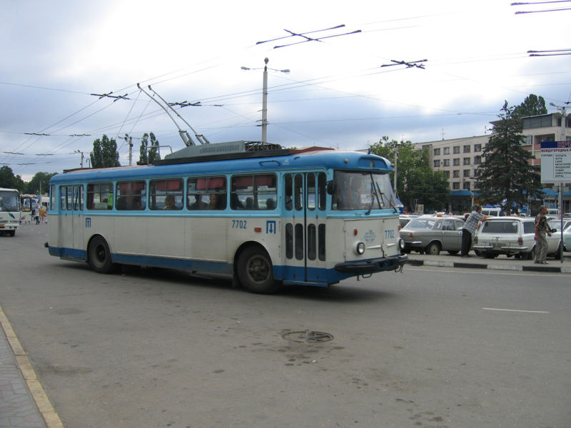 Janusz Strzelczyk